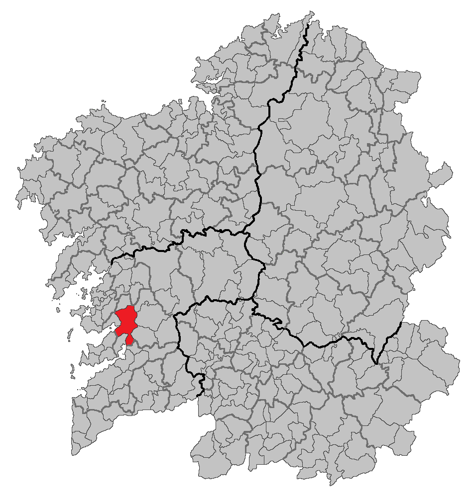 Location map of Pontevedra, Galicia.